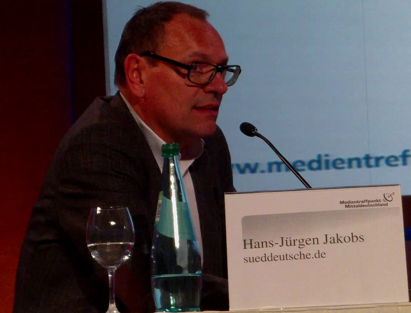 German economist and journalist Hans-Jürgen Jakobs